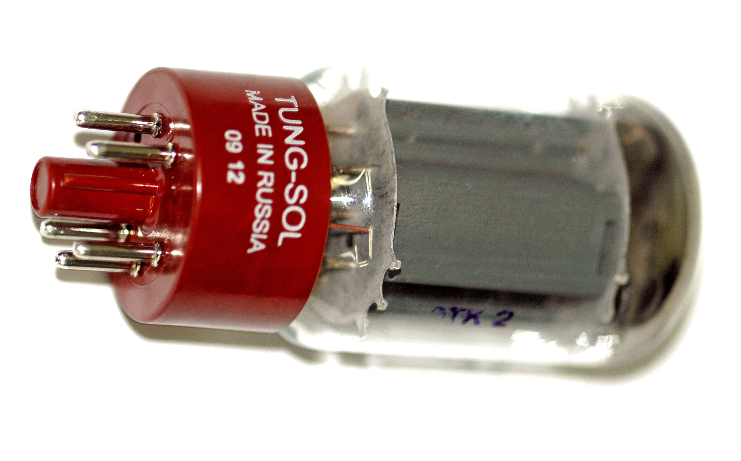 A current production Russian Tung-Sol 5881 Vacuum Tube